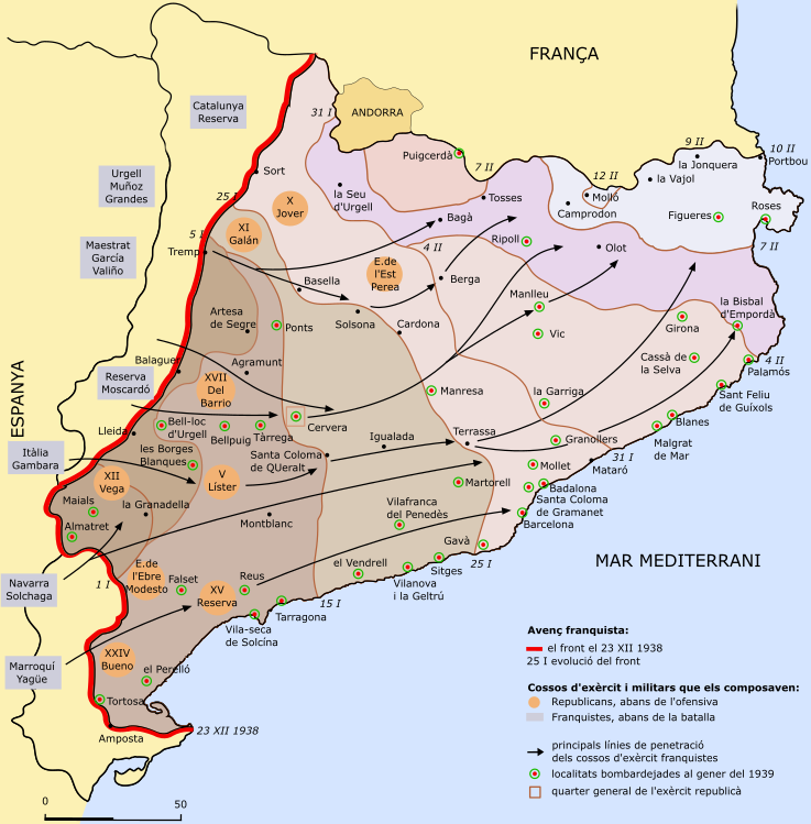 spanish civil war evolution in Catalonia